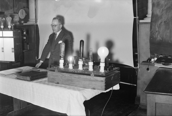 Selskapet for Lyskultur (The Society for good lighting), demonstration during a technical courses. Norway, Oslo in the 1930 - 1940.